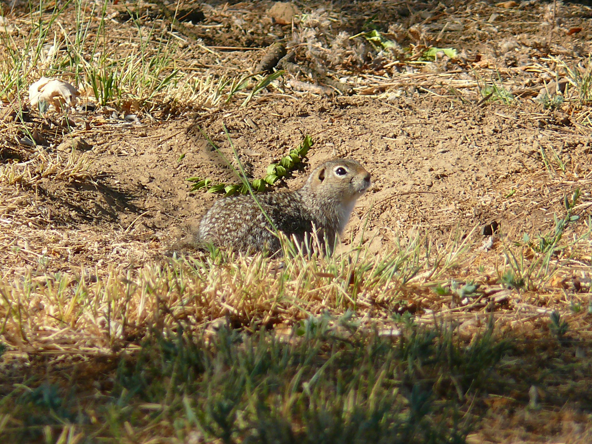 Photo credit: Scott McCarthy/USFWS